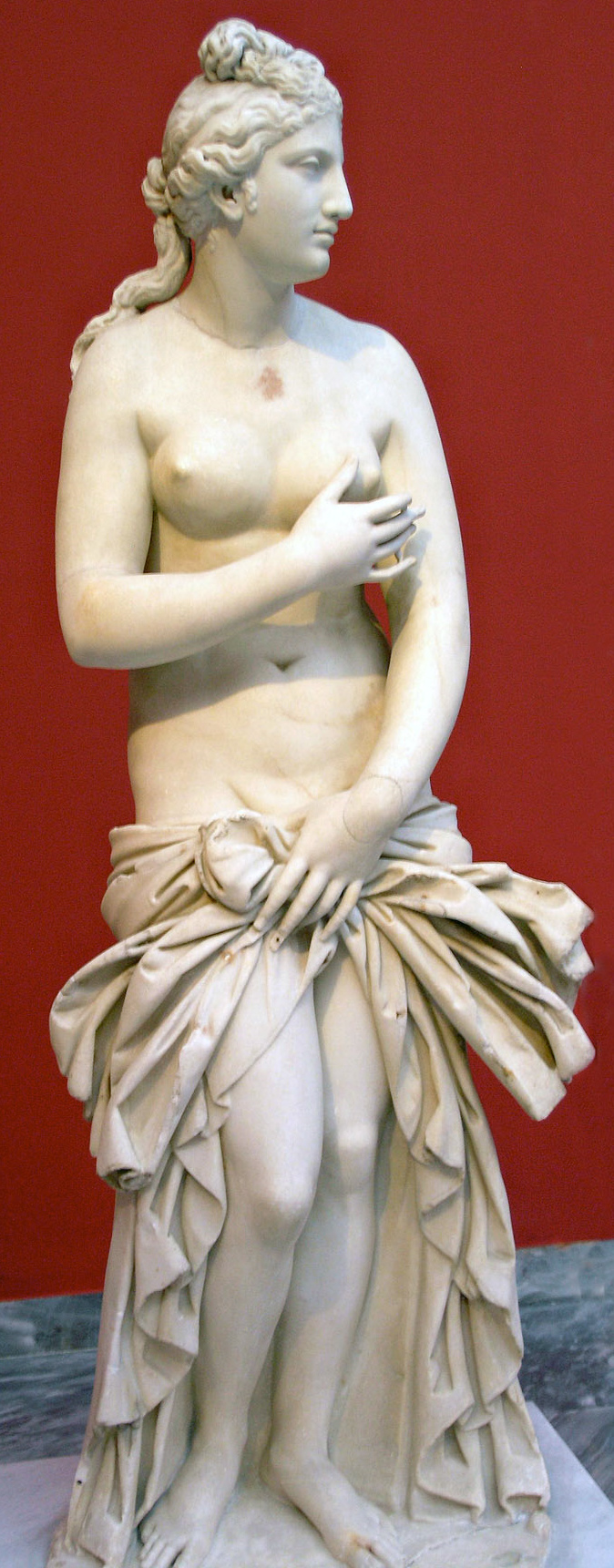 Aphrodite of the Syracuse type. Parian marble, Roman copy of the 2nd century CE after a Greek original of the 4th century BC; neck, head and left arm are restorations by Antonio Canova. Found at Baiae, Southern Italy.